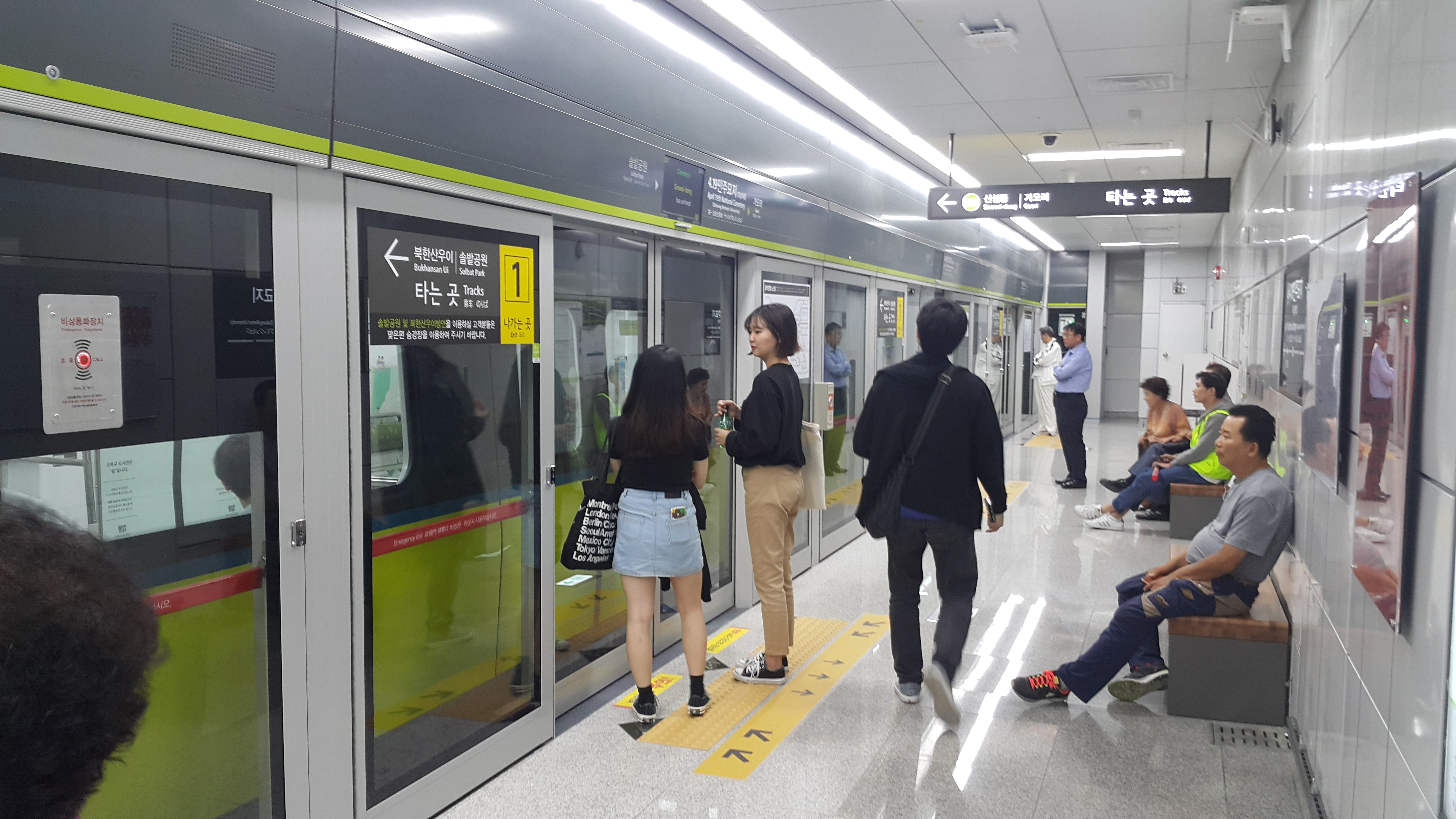 A scenery of Ui LRT April 19th National Cemetery Station platform